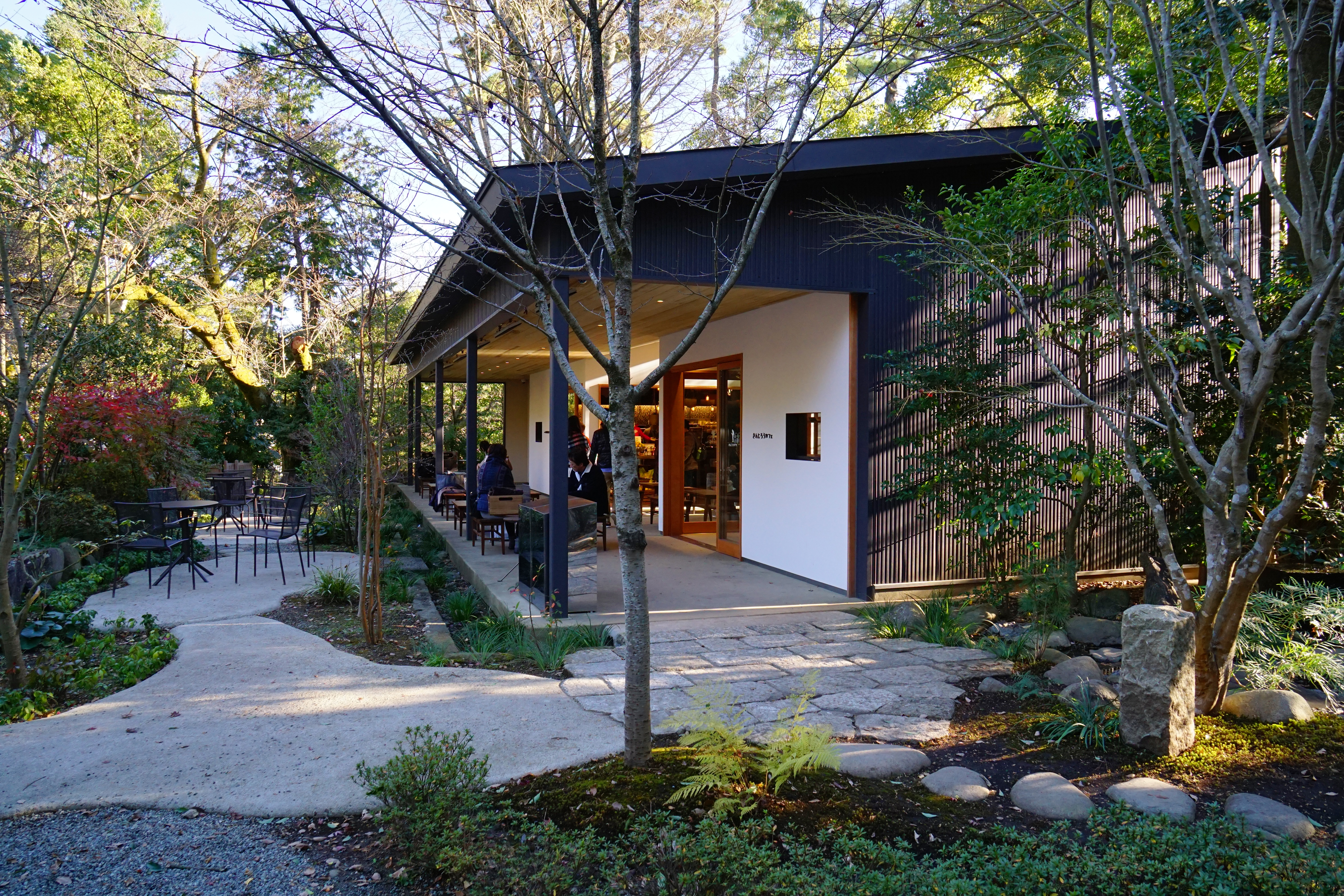 Hōtoku Ninomiya Shrine in Odawara, Kanagawa prefecture, Japan